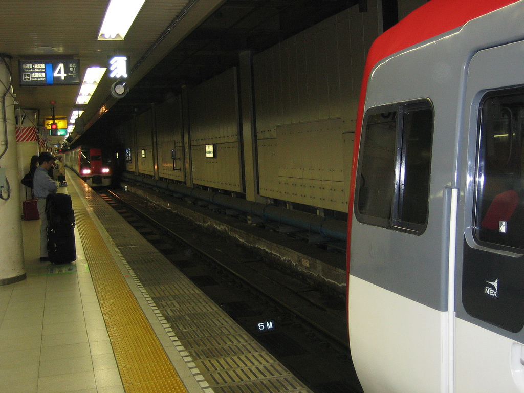 Two Narita Express trains prepare to couple at Tokyo Station.